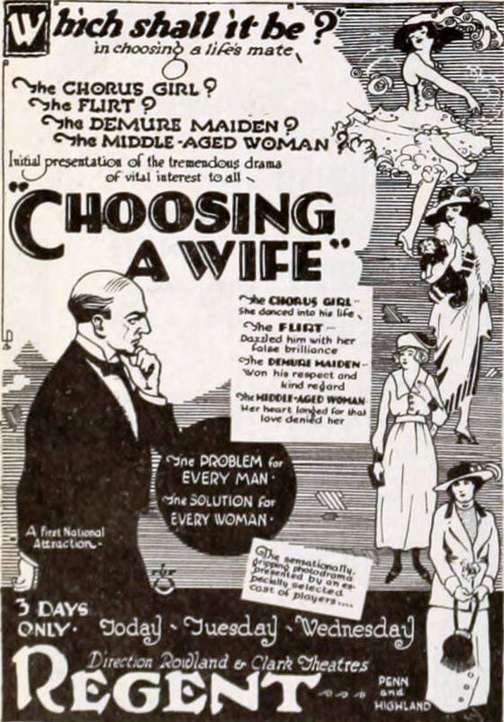 Advertisement for the British drama film Wanted a Wife (1919) under its alternate American title Choosing a Wife, for the Regent Theater in Pittsburgh, Pennsylvania, on page 69 of the August 30, 1919 Exhibitors Herald. The original ad was a quarter page spread.